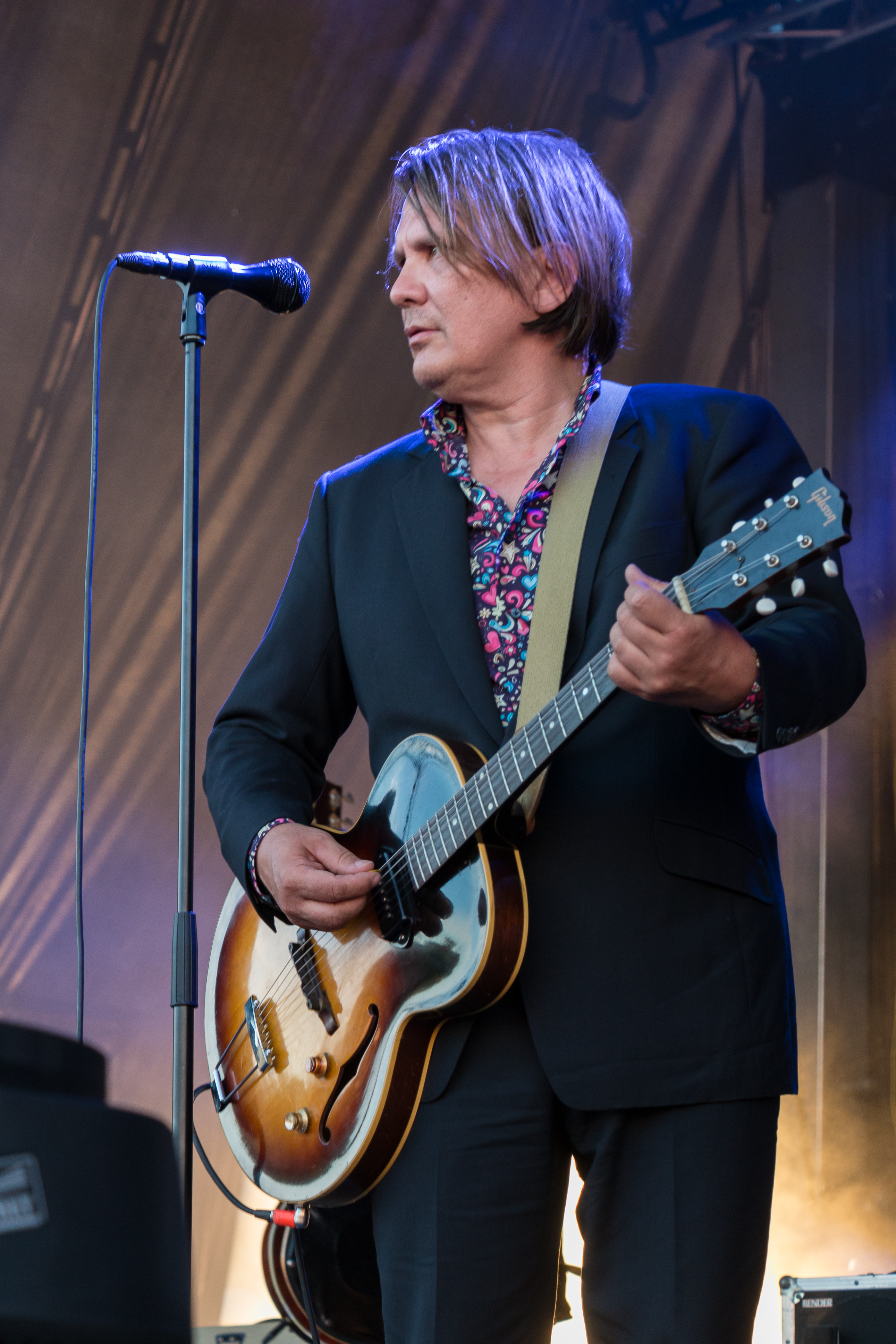 Sven Regener von